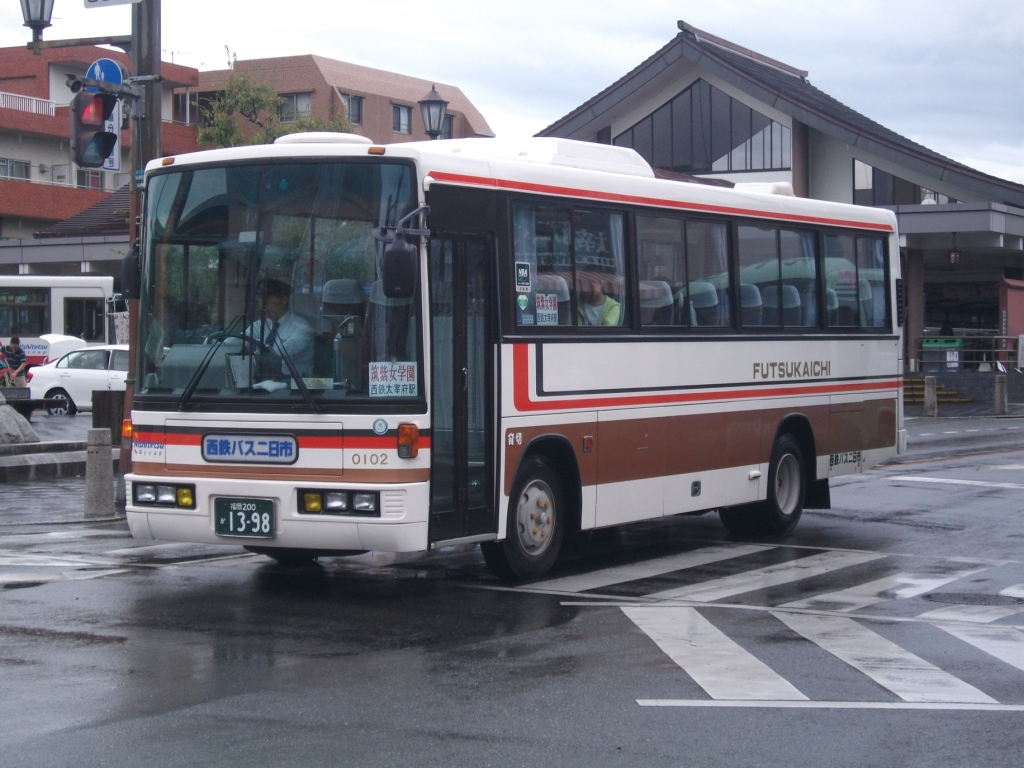 Nishitetsu Bus Futsukaichi #0102